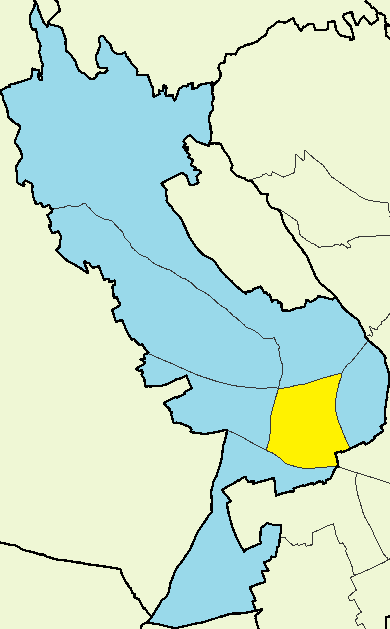 Apostle Barnabas in Kato Polemidia.